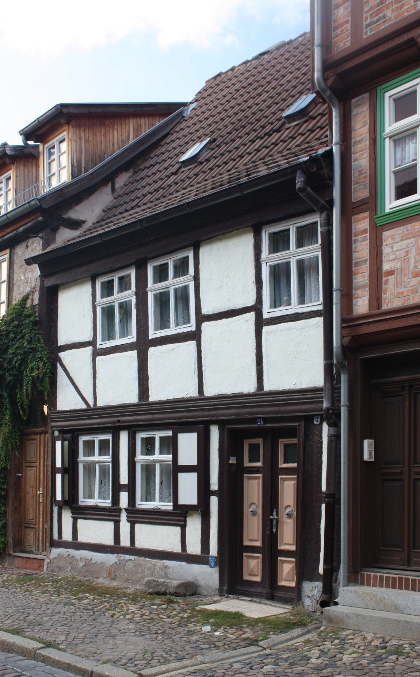 This is a photograph of an architectural monument.It is on the list of cultural monuments of Quedlinburg Augustinern 21 in Quedlinburg